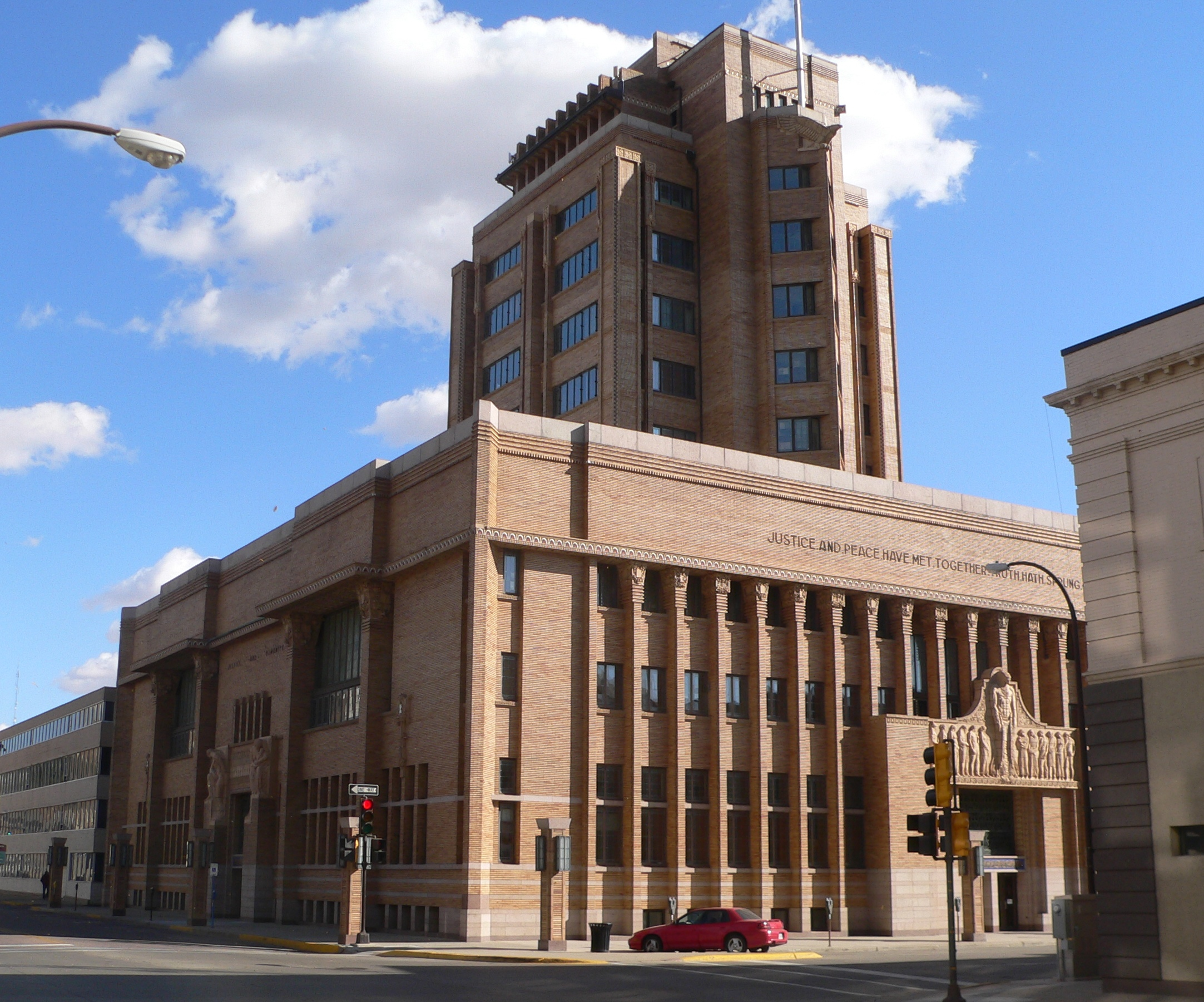 Woodbury County Courthouse in Sioux City, Iowa: seen from the northwest.